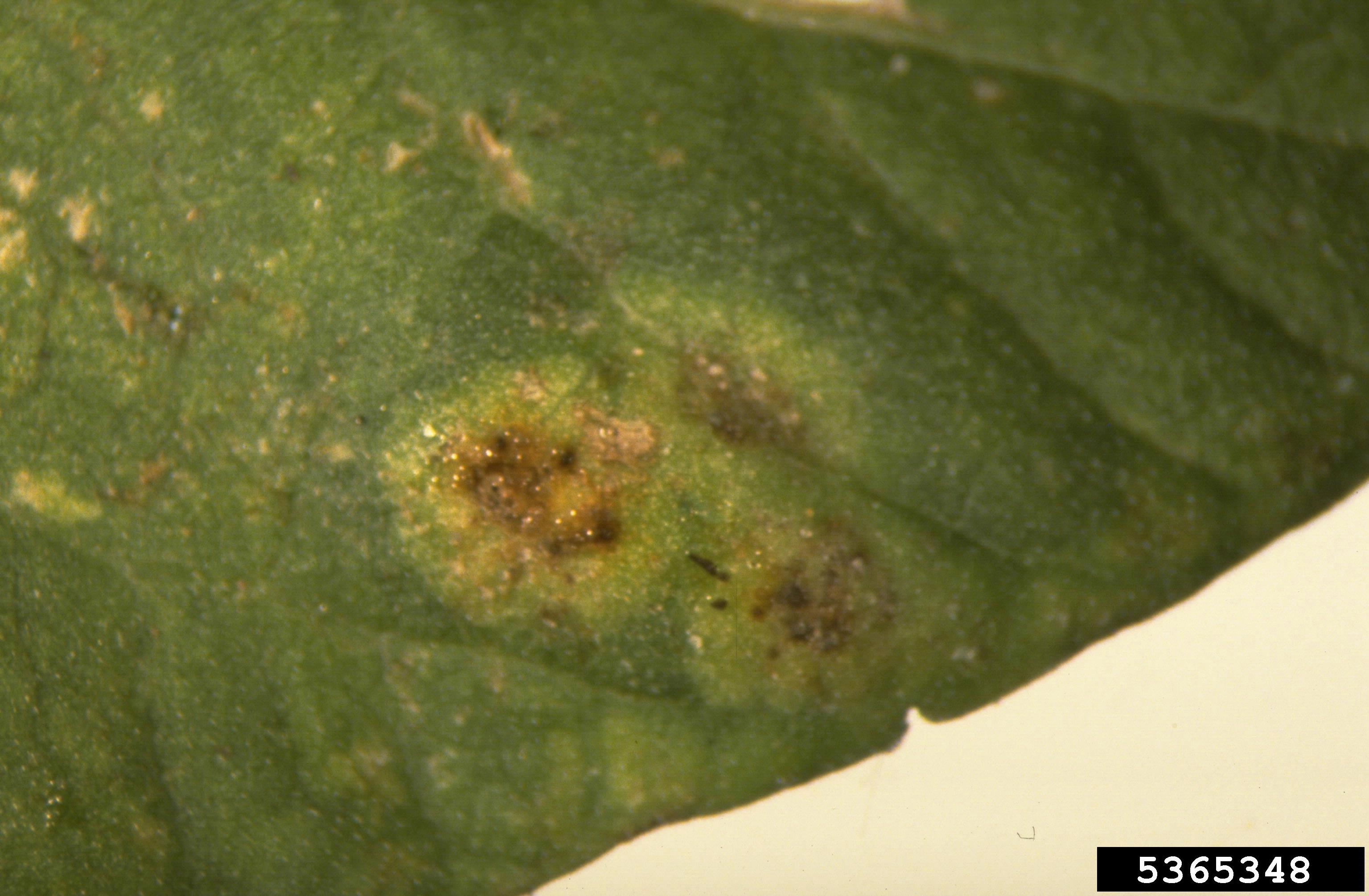 Uromyces appendiculatus pycnium